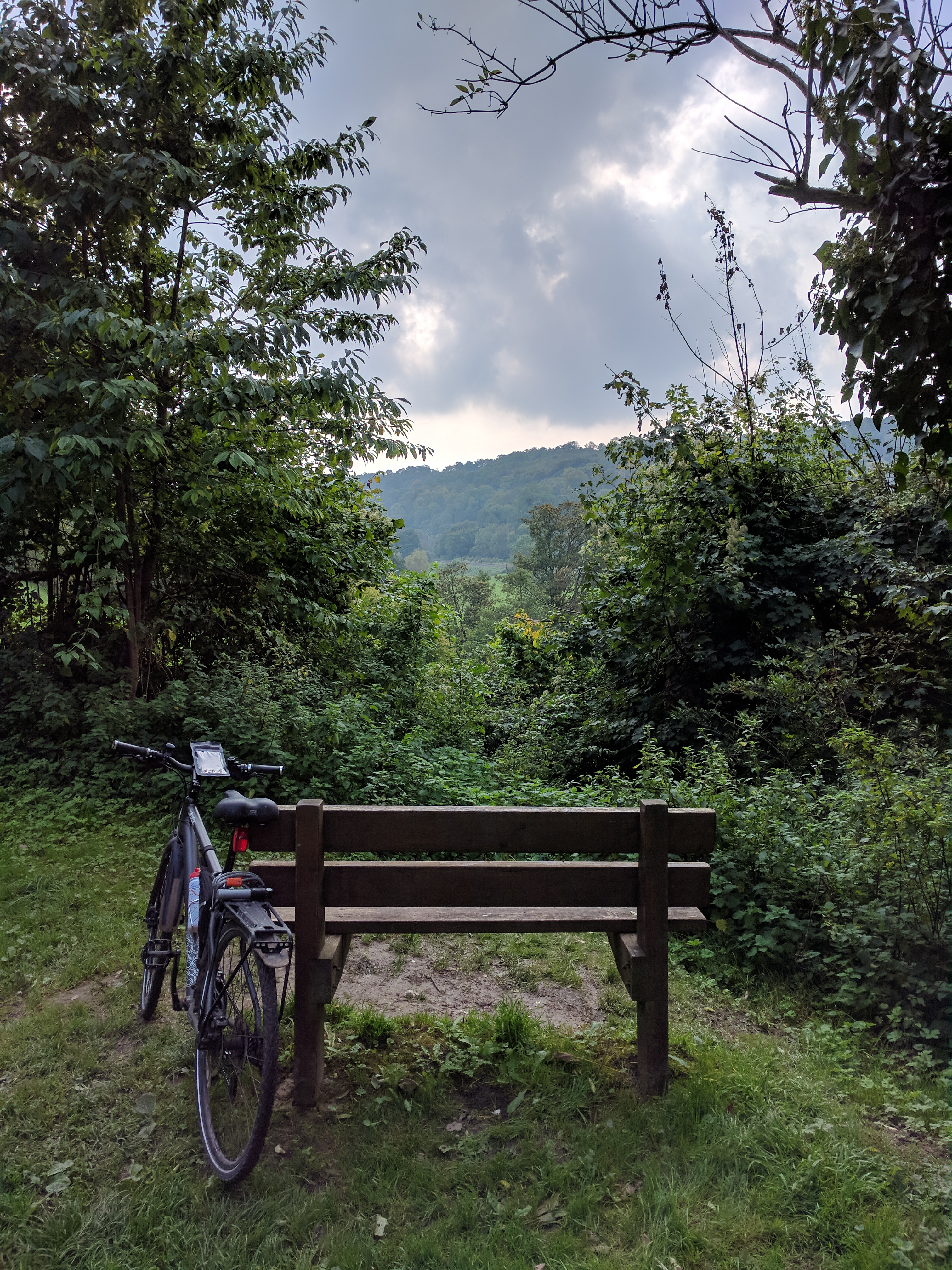 Miles Kington memorial bench, Conkwell, Wiltshire, England